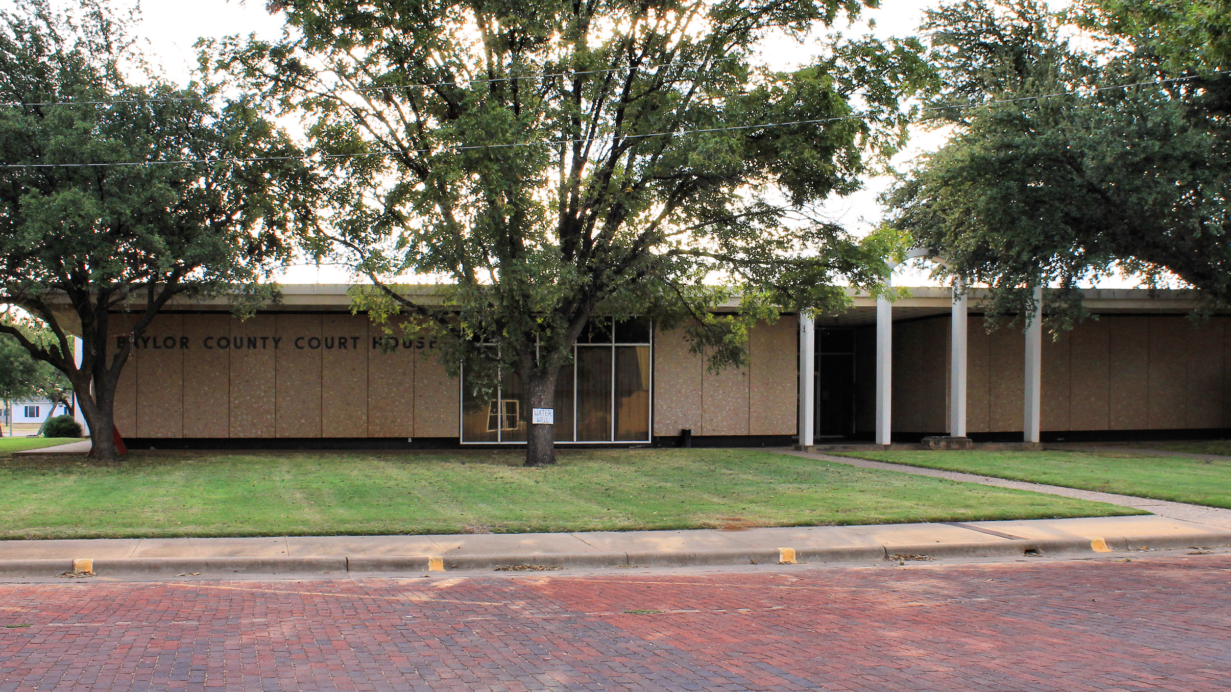 The Baylor County Courthouse in Seymour, Texas, United States was built in 1968.